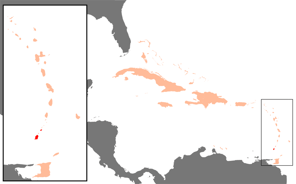 Position of Grenada in the Caribbean